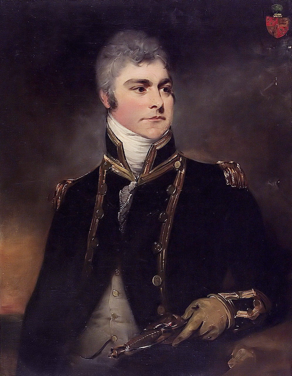 Admiral Sir Charles Hamilton, 1767-1849 oil on canvas 91.5 x 71 cm